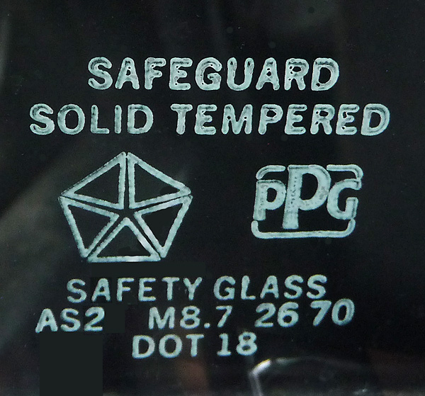 Auto safety glass markings (Chrysler Safeguard brand glass made by PPG shown)